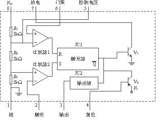 Internal circuit diagram of the 555 timer IC